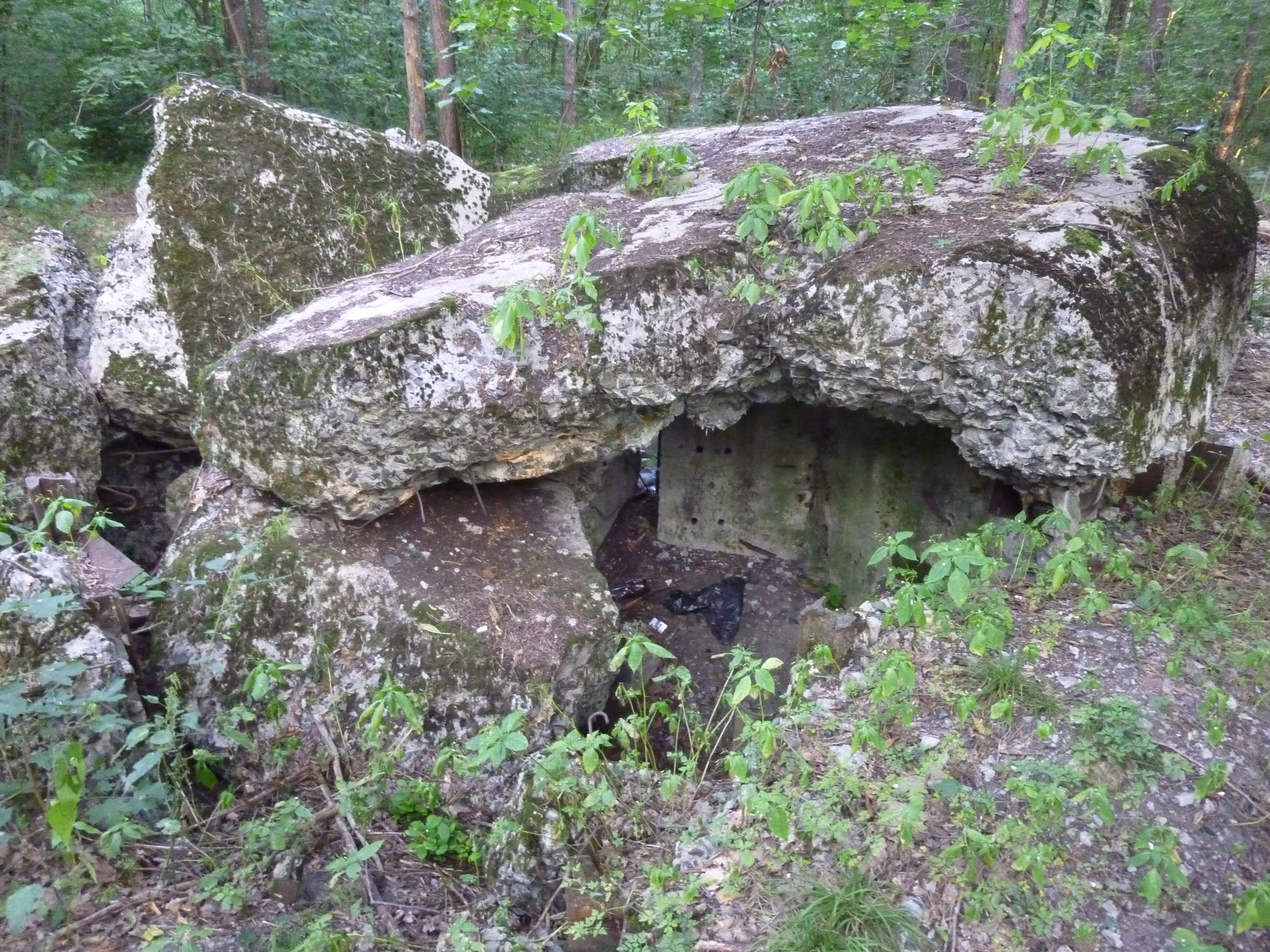 Pillbox 479 (Kyiv Fortified Region)